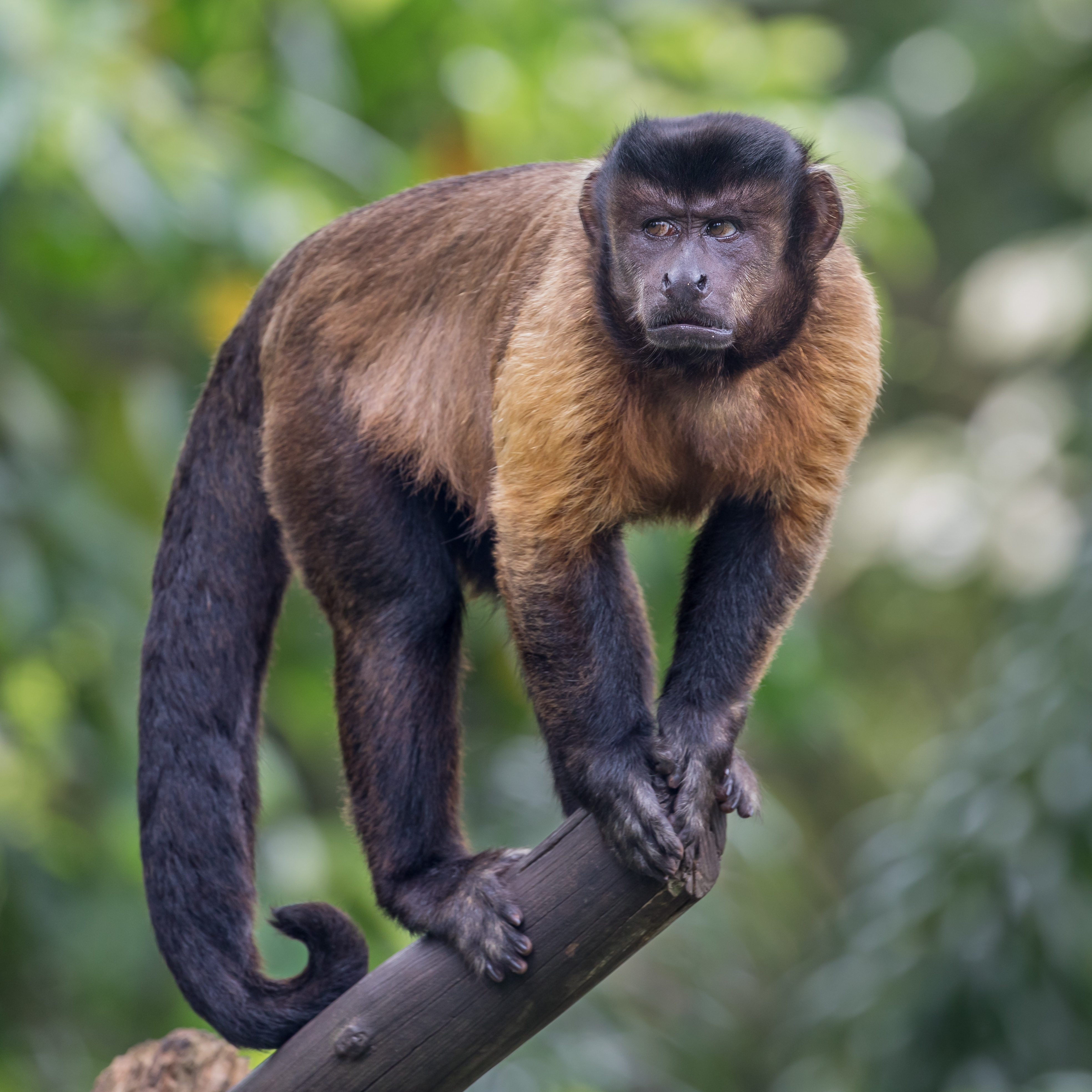 Sapajus apella (Tufted capuchin) on a branch, starring at the horizon, in Singapore.